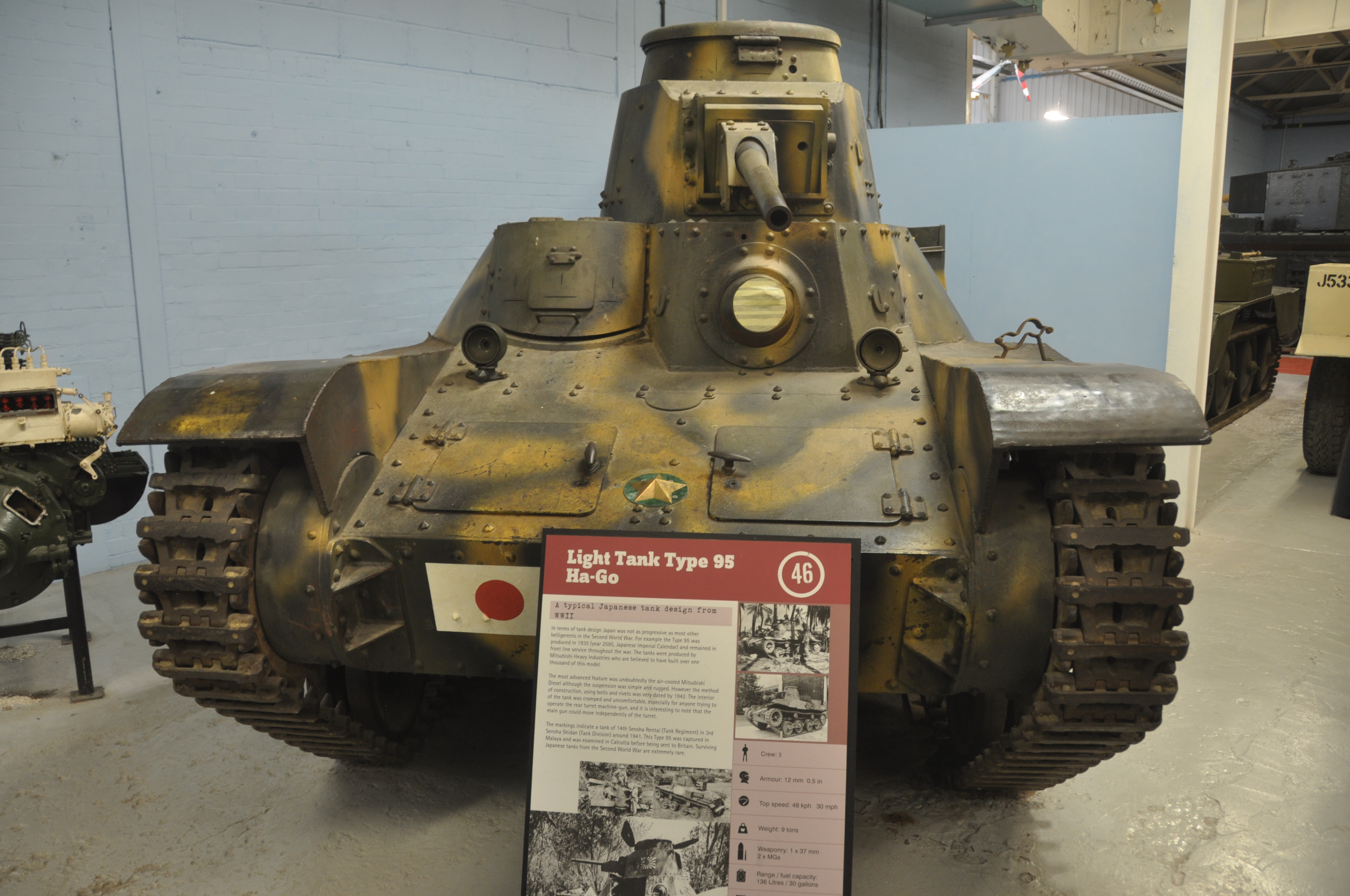 The Tank Museum